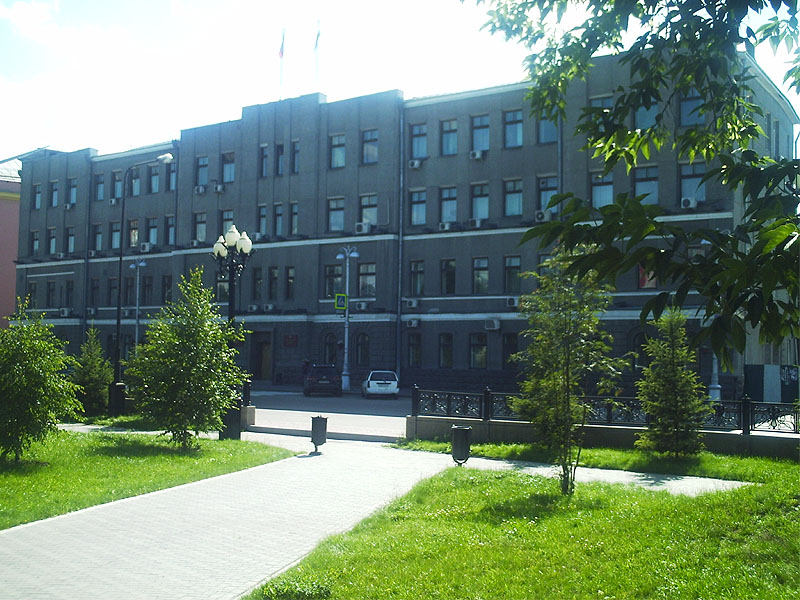 A State Duma of Irkutsk